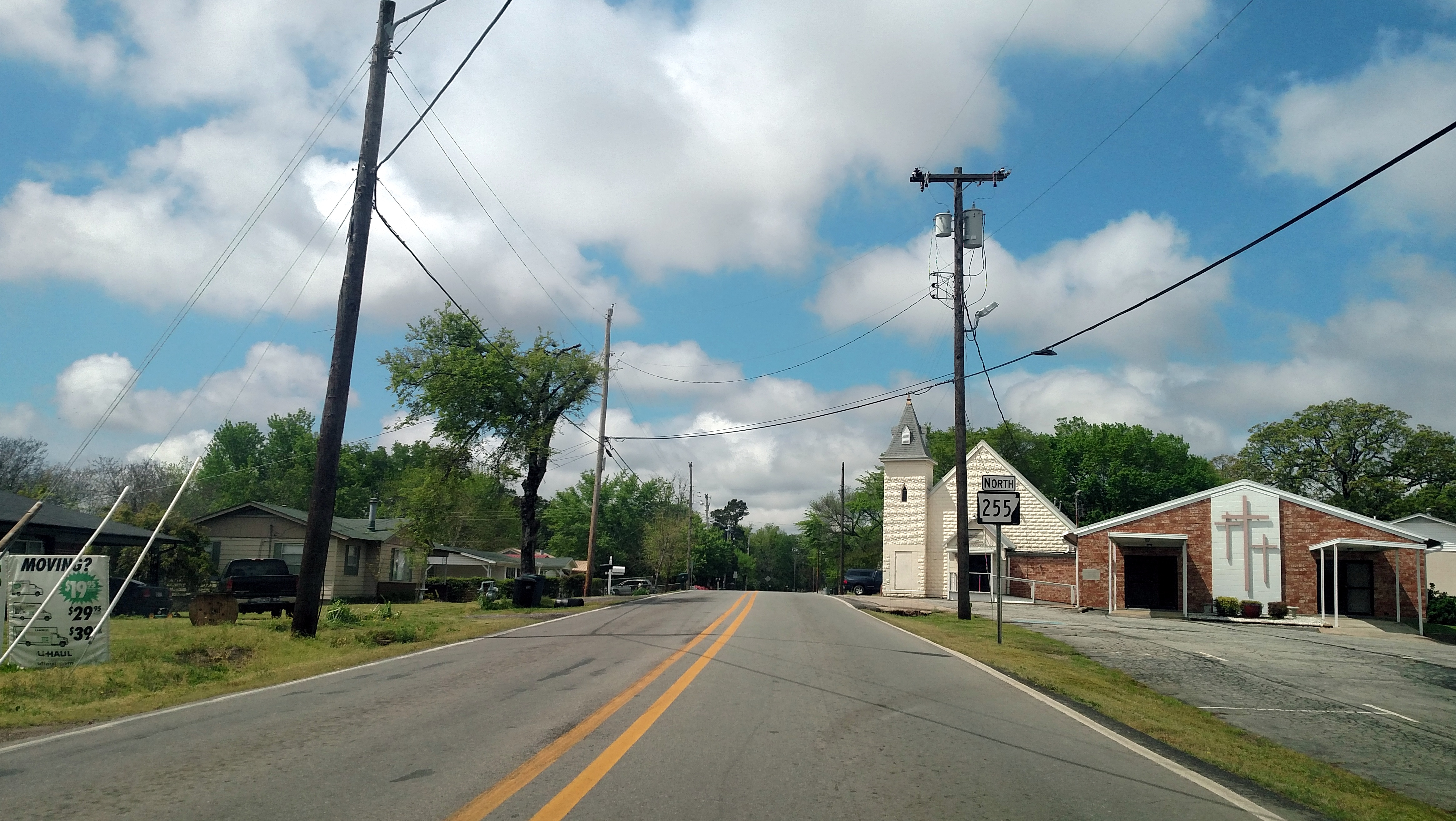 Church St (Highway 255) in Barling. First reassurance marker after Highway 22